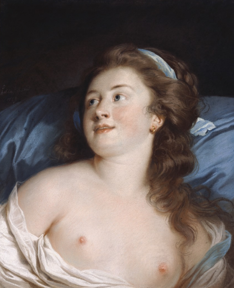 "L'heureuse surprise", pastel on paper by Adélaïde Labille-Guiard (French, 1749 - 1803). Signed and dated 1779. Part of the J. Paul Getty Museum collection, inventory nr. 96.PC.327. Title "L'heureuse surprise" published in Neil Jaffares, „Dictionary of pastellists before 1800“, London 2006